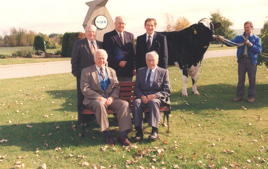 Startmore Rudolph at the Artificial Insemination Center of Quebec. Dr. Ernest Mercier, the founder of the center, is sitting on the left.